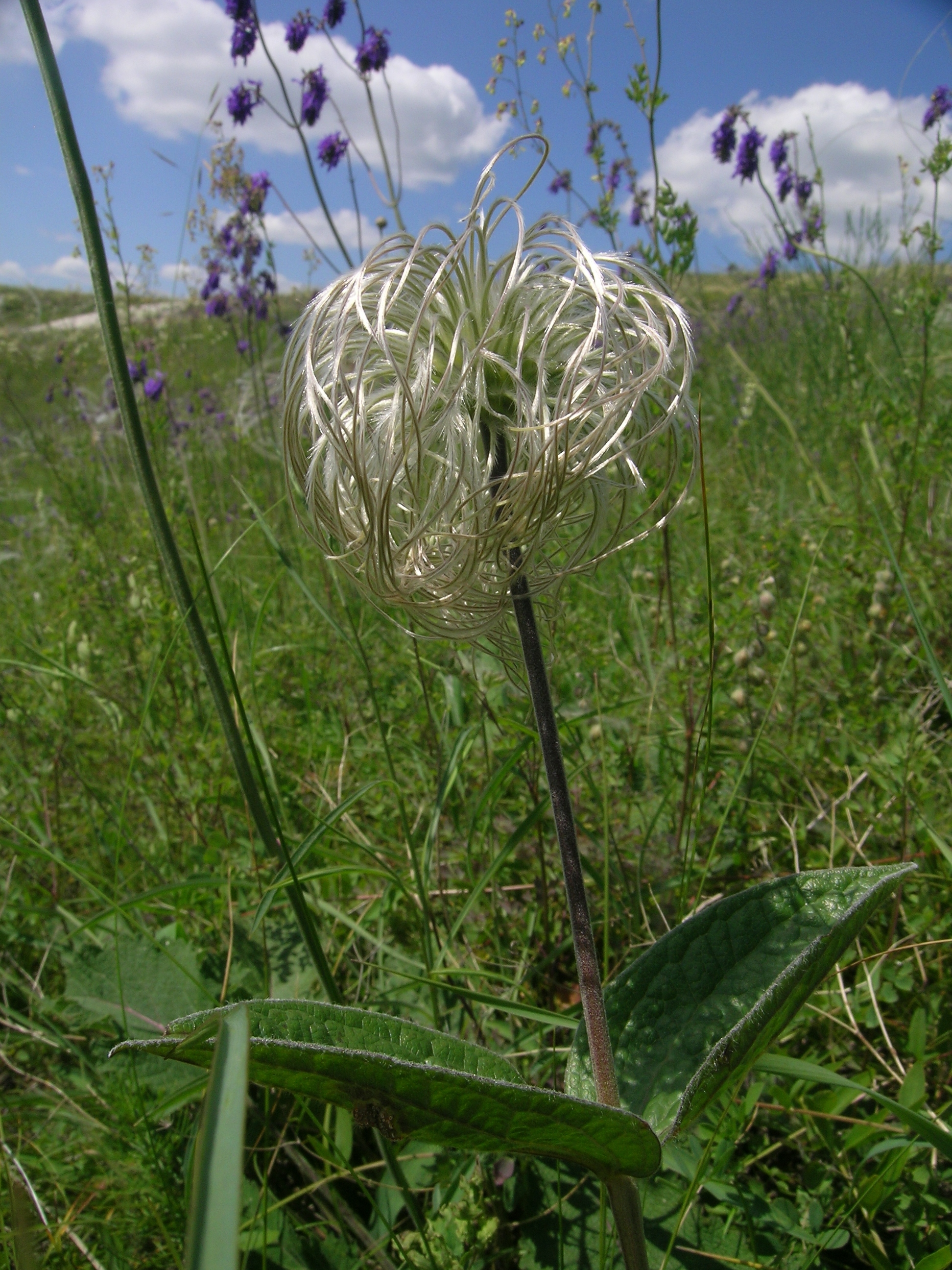 Clematis integrifolia at the escarpment of the high ground.